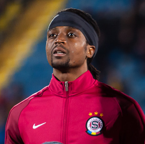 «Ростов» - «Спарта» (16.02.2017)